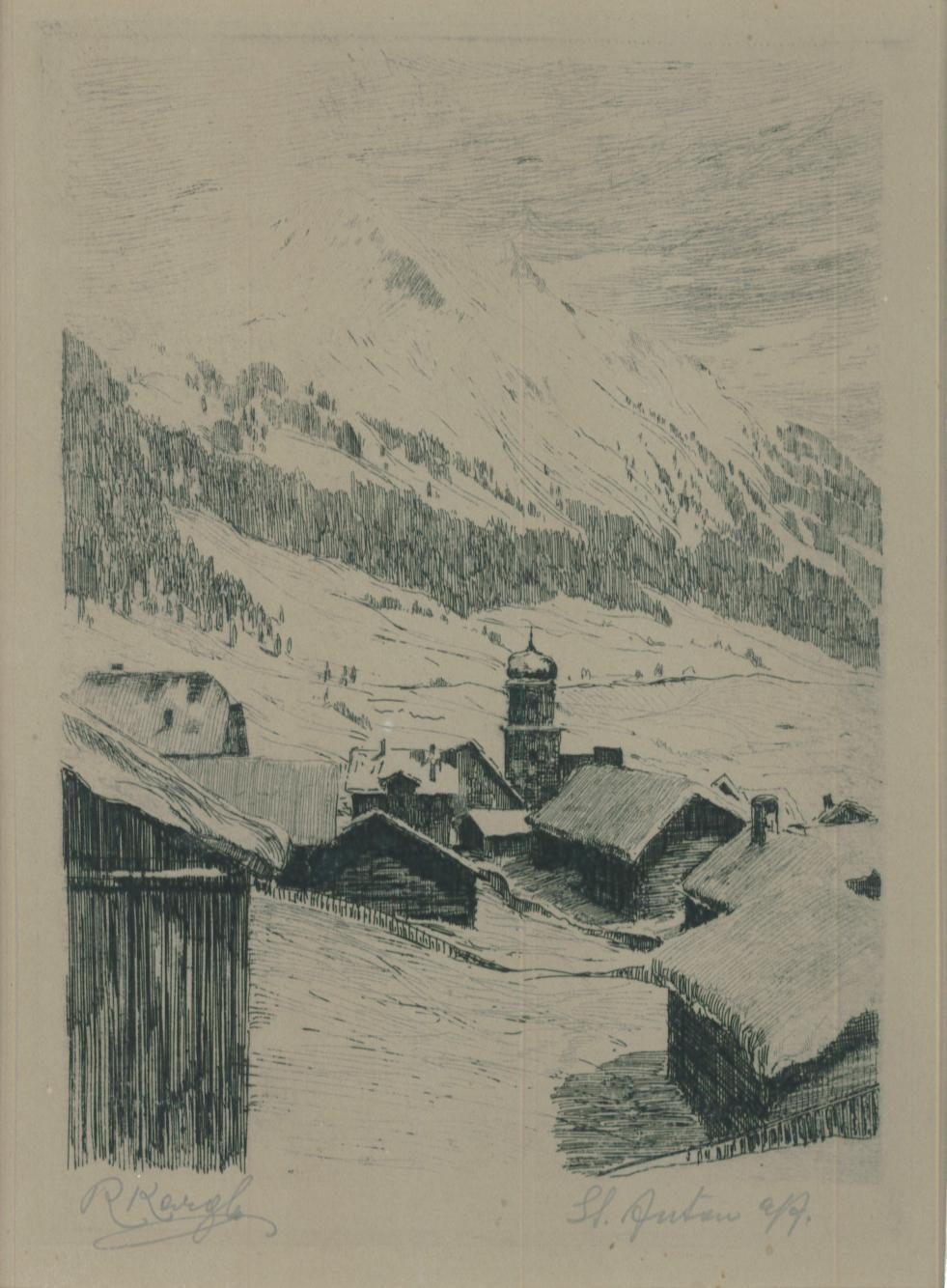 Rudolf Kargl, St. Anton 1917